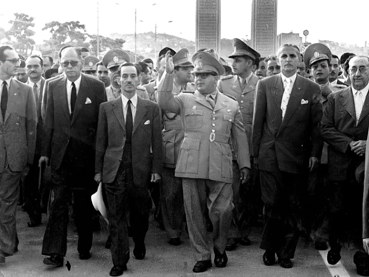 Inauguración del Centro Simon Bolivar, Venezuela 1954